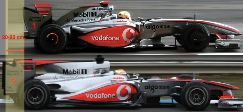 Comparison of 2009-2010 cars